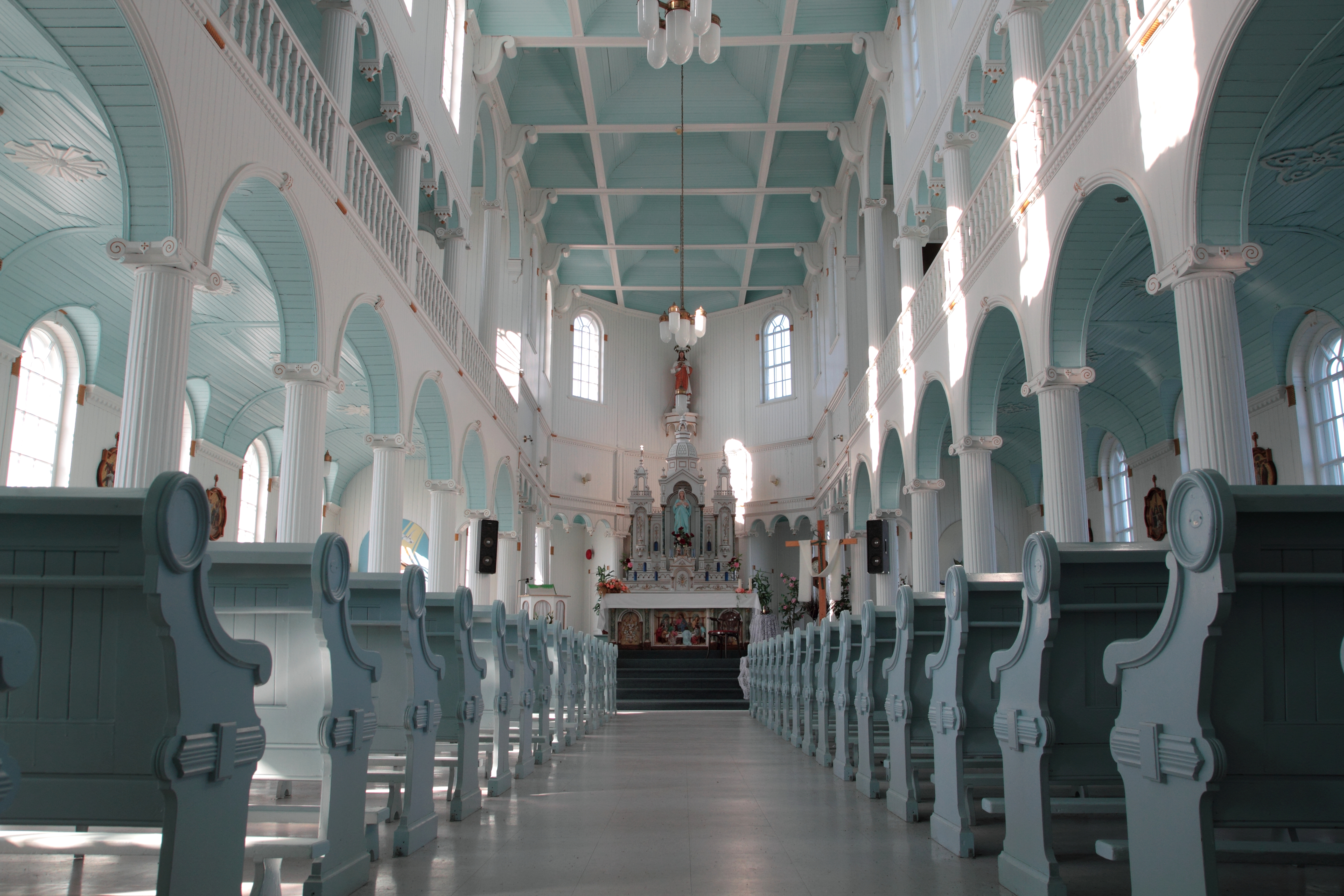 Inside of Saint-Hippolyte church, Rivière-au-Tonnerre, Quebec, Canada